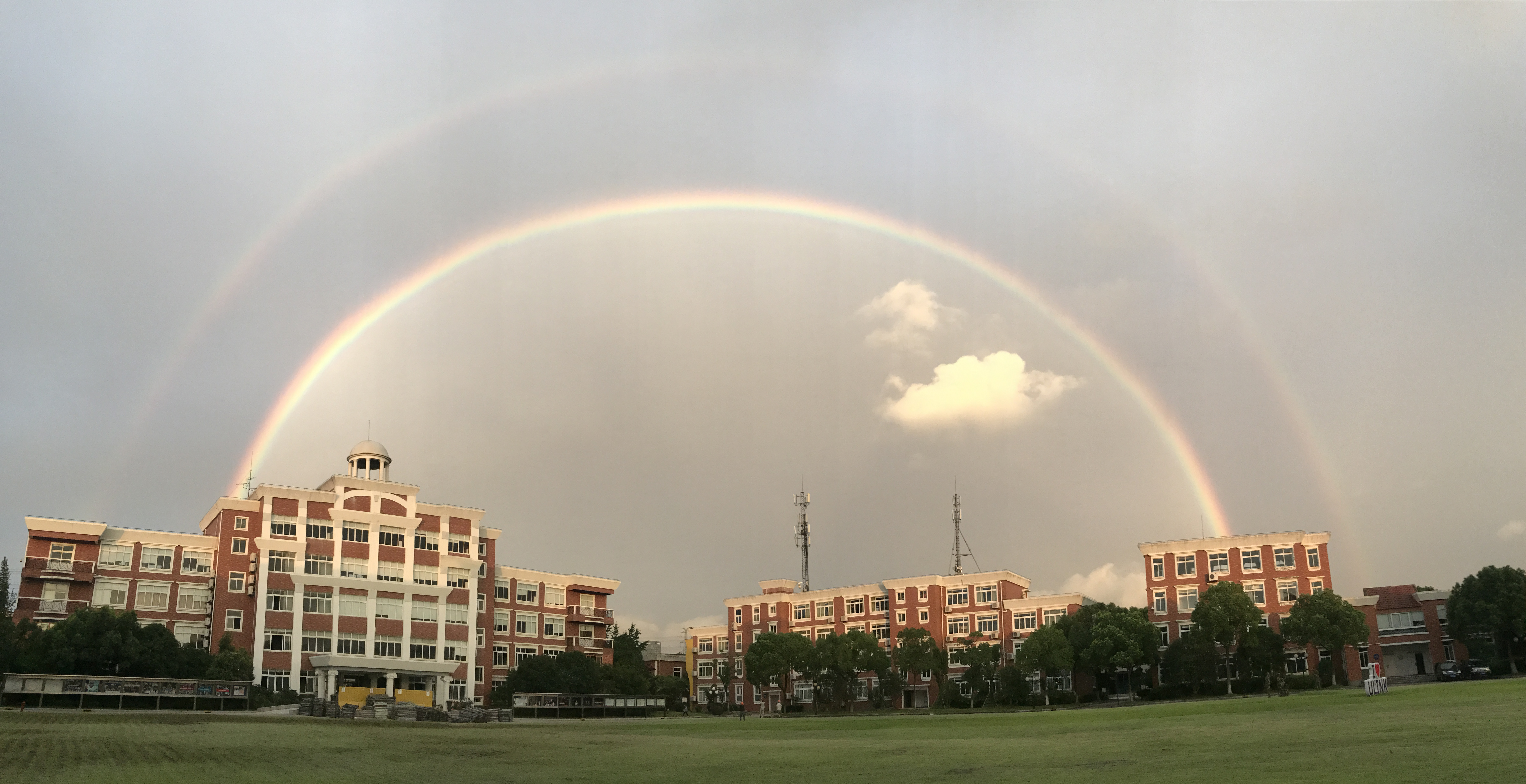 This is permitted by Ulink College Shanghai to be used in Wikipedia